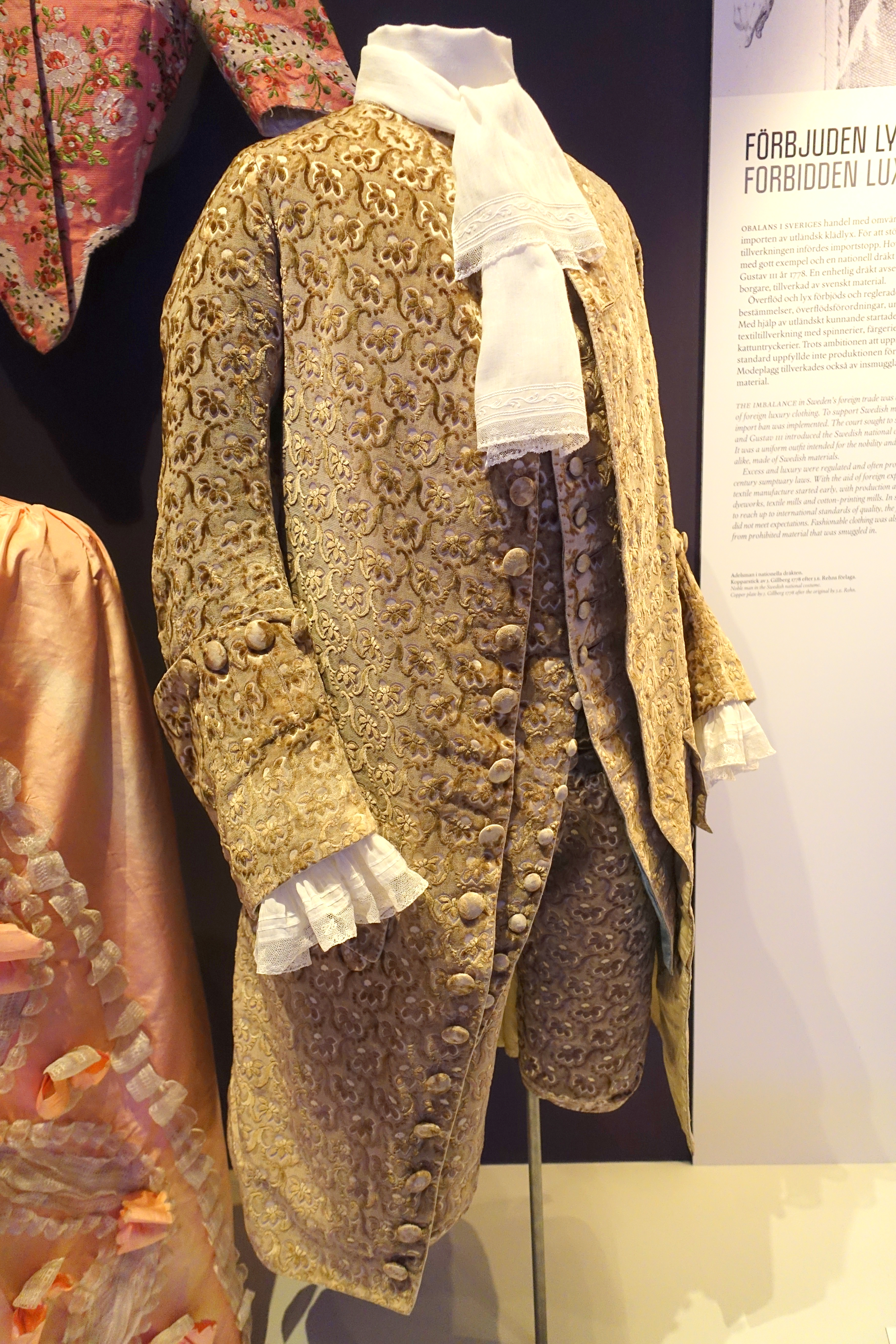 Exhibit in the Nordiska museet - Stockholm, Sweden. This work is in the public domain because the artist(s) died more than 70 years ago.